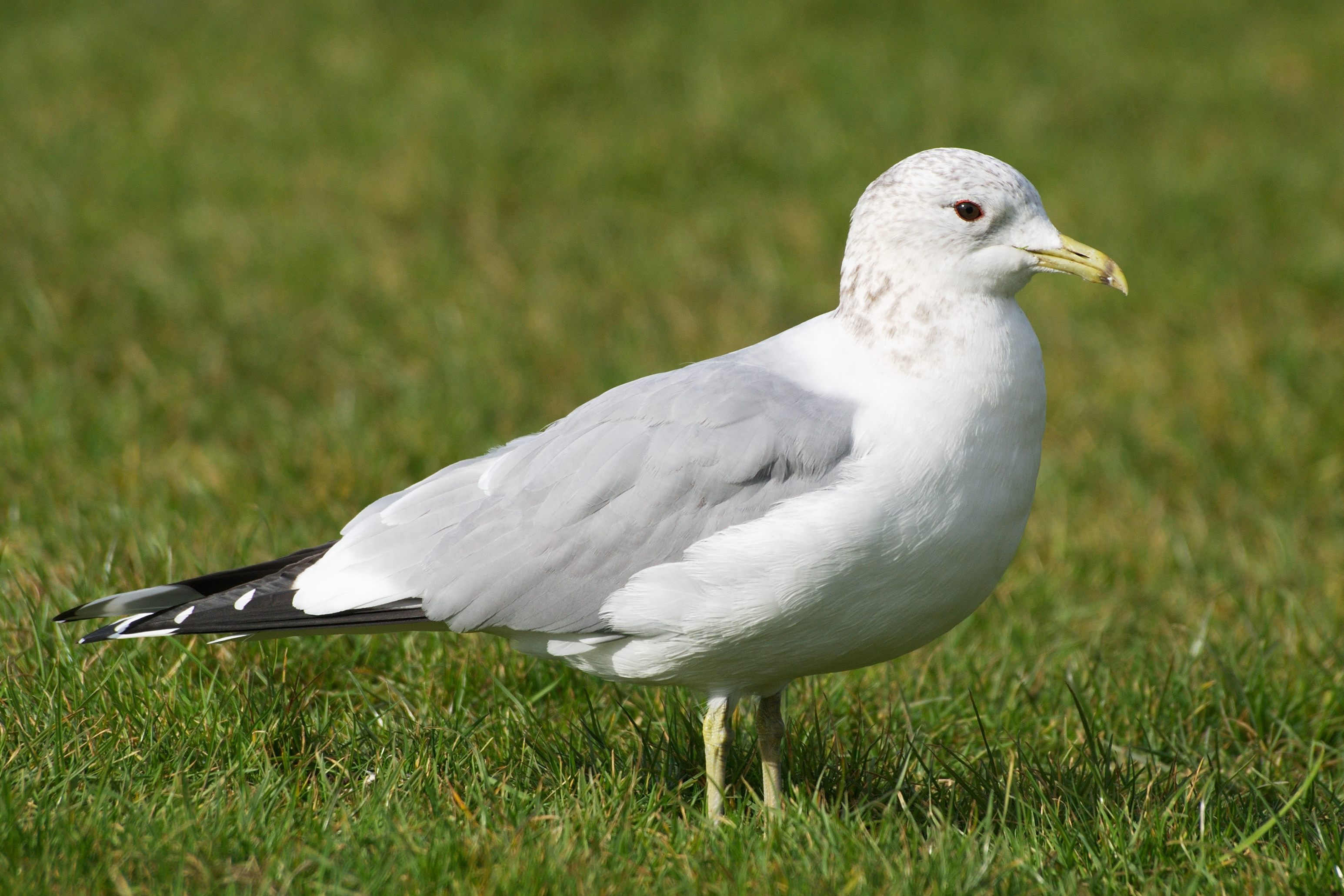 The Common Gull (Larus canus) in winter plumage.